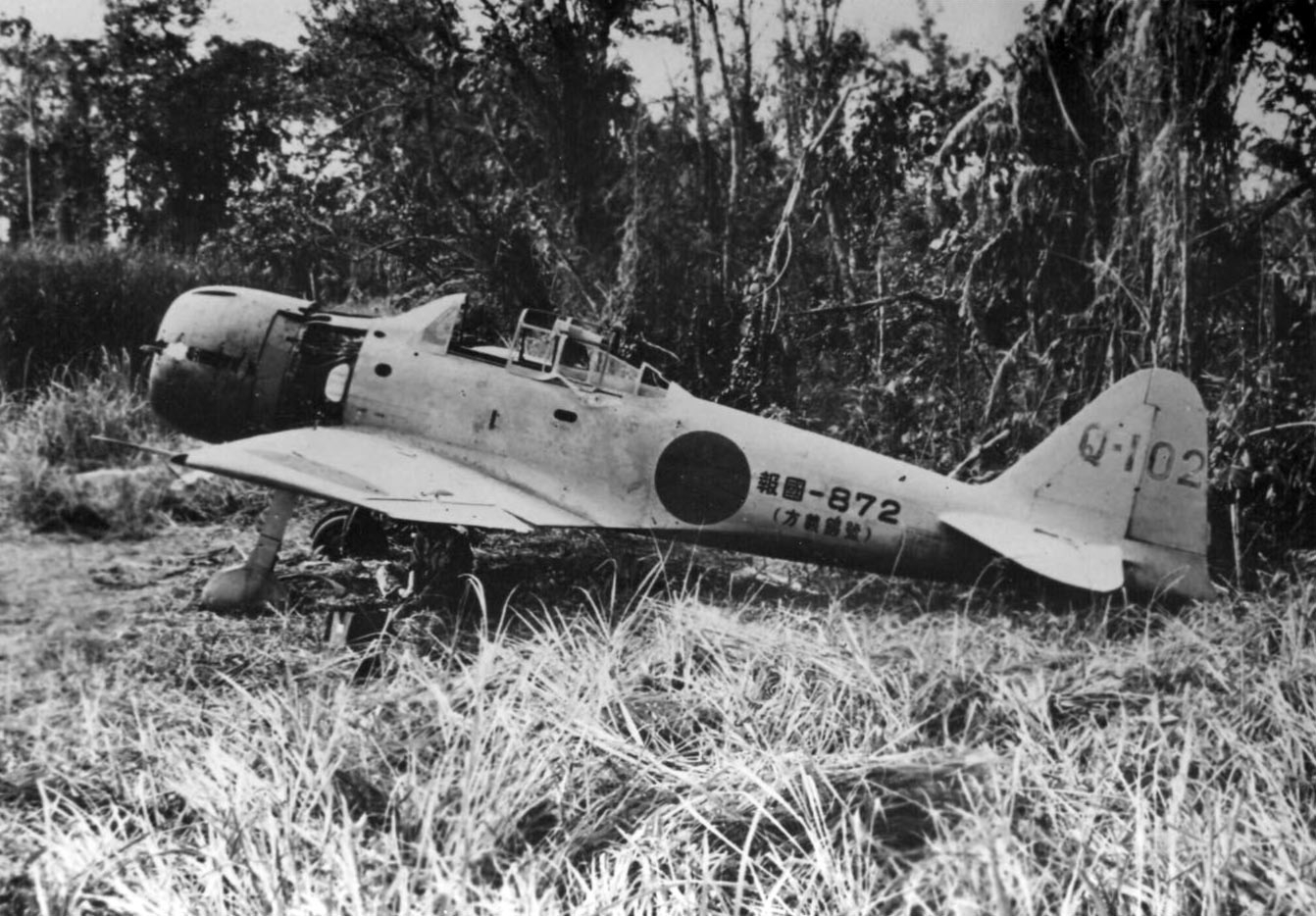 An abandoned Mitsubishi A6M3 Model 32 Zero fighter. It was flown by Lieutenant Junior Grade Kazuo Tsunoda stationed at Buna base, New Guinea. The plane made a crash landing after being damaged by a USAAF Bell P-39 Airacobra on 26 August 1942.[1] It is marked: "報国-872": Navy donated aircraft No. 872; "(方義錫)": Korean "Bang Uiseok" was a name of the donator of the plane and he was a wealthy Korean business person.